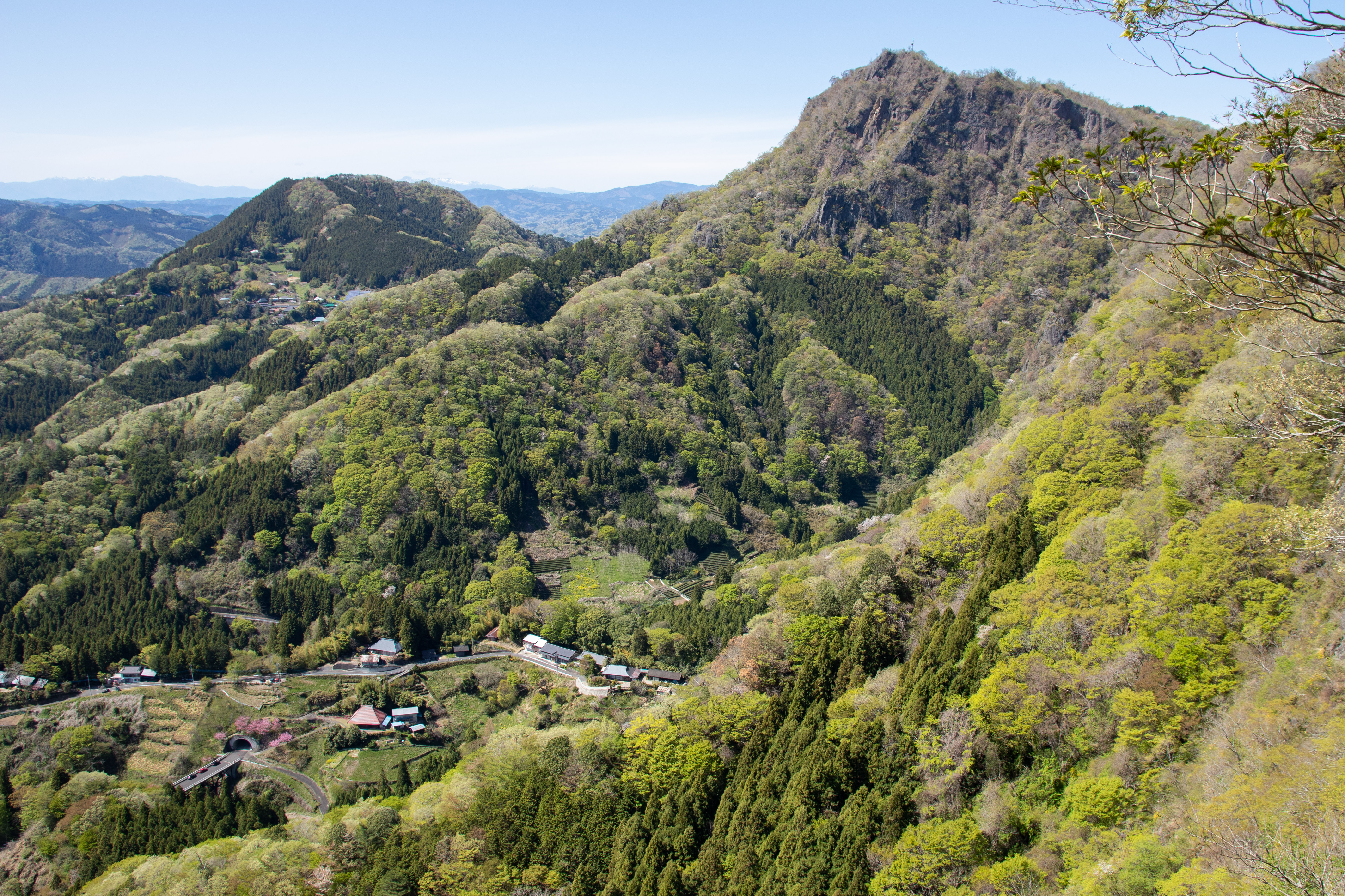 Mount Okukuji-Nantai (Okukuji-nantai-san おくくじなんたいさん 奥久慈男体山), Kuji Mountains, Ibaraki Pref., JapanCanon EOS 80D + Sigma 17-70mm F2.8-4 DC Macro OS HSM